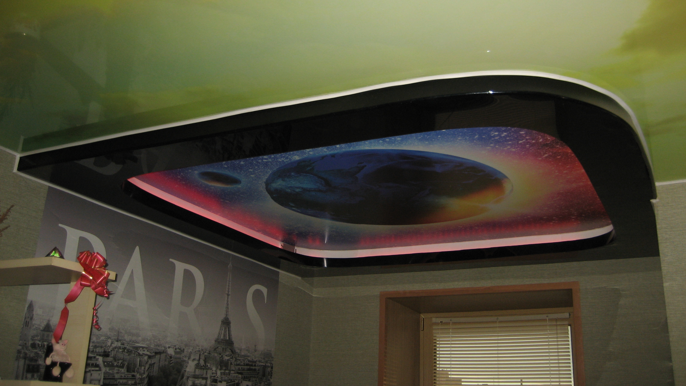 Stretched Ceilings